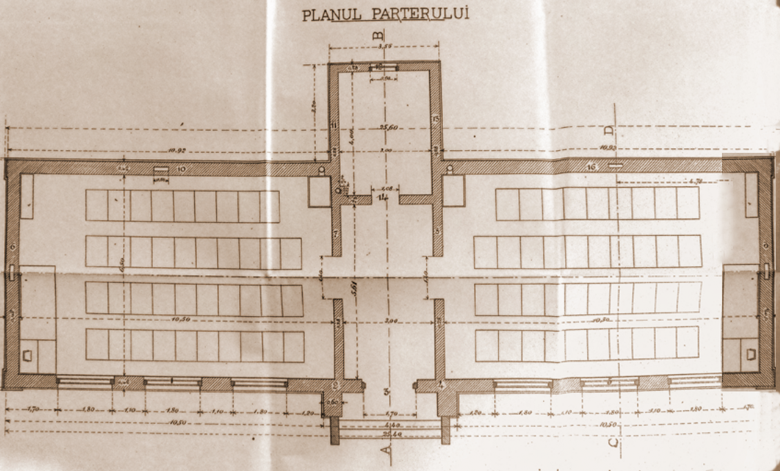 Standard plan for a rural public school - type ”superior” - from the ”Old Kingdom”